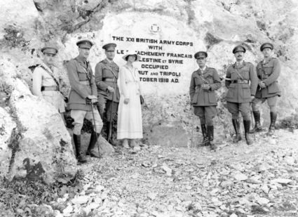 A group portrait including General Sir Harry and Lady Chauvel (third and fourth from left), taken at Dog River, Lebanon, near the tablet recording the occupation of Beirut, and Tripoli in October 1918.